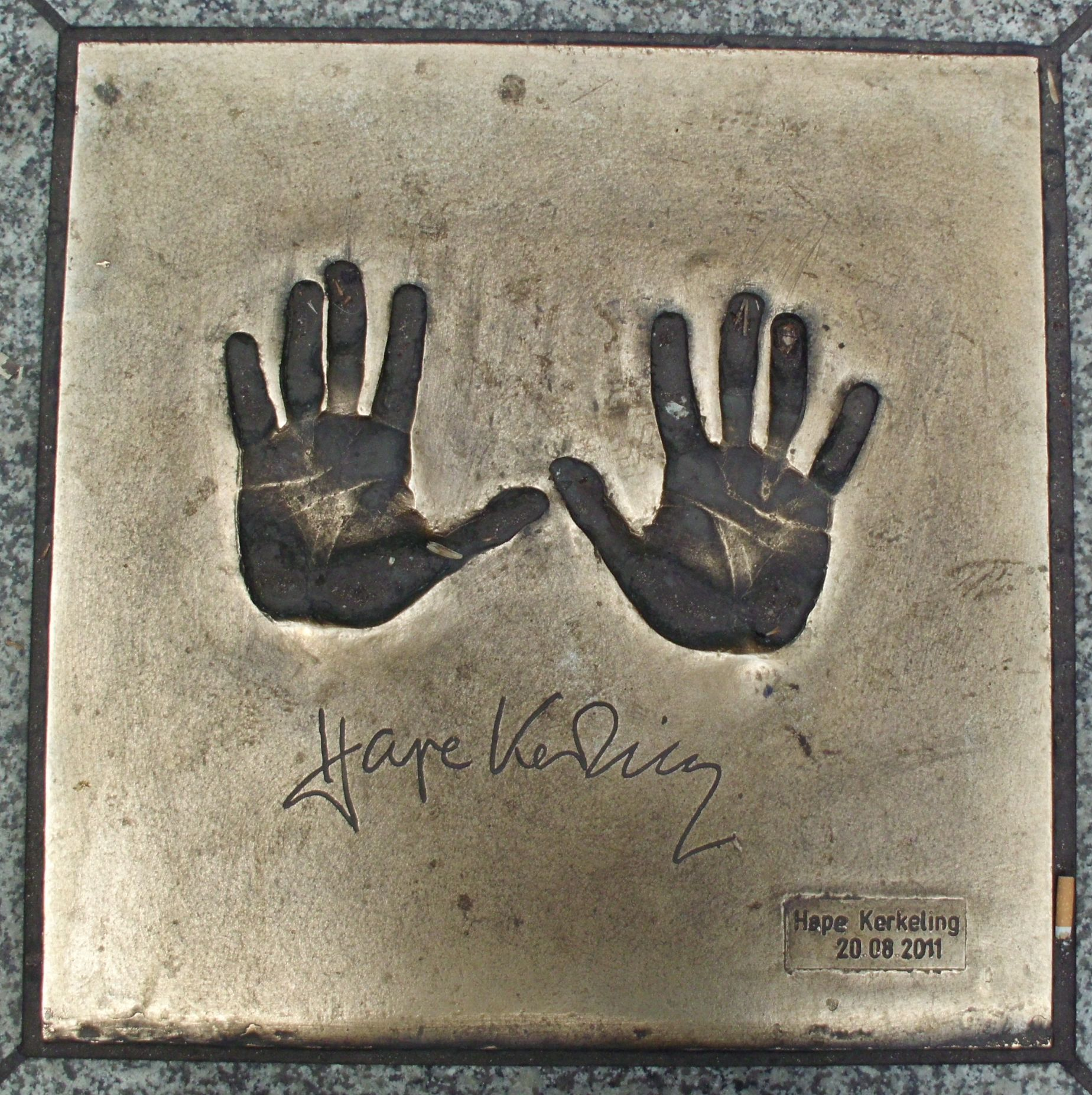 Plaque in the Lloyd-Passage Bremen showing the hand prints of actor comedian Hape Kerkeling